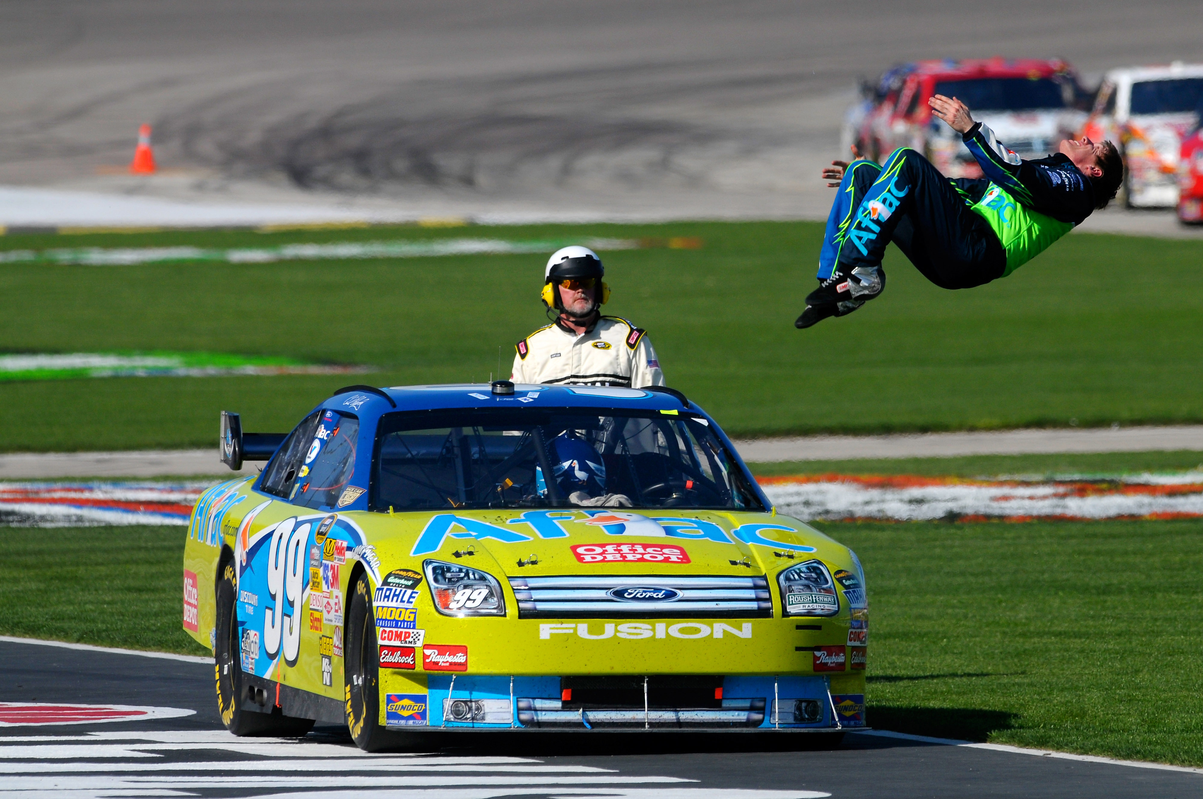 Carl Edwards performs his signature backflip at Texas Motor Speedway following his third win of the 2008 season.